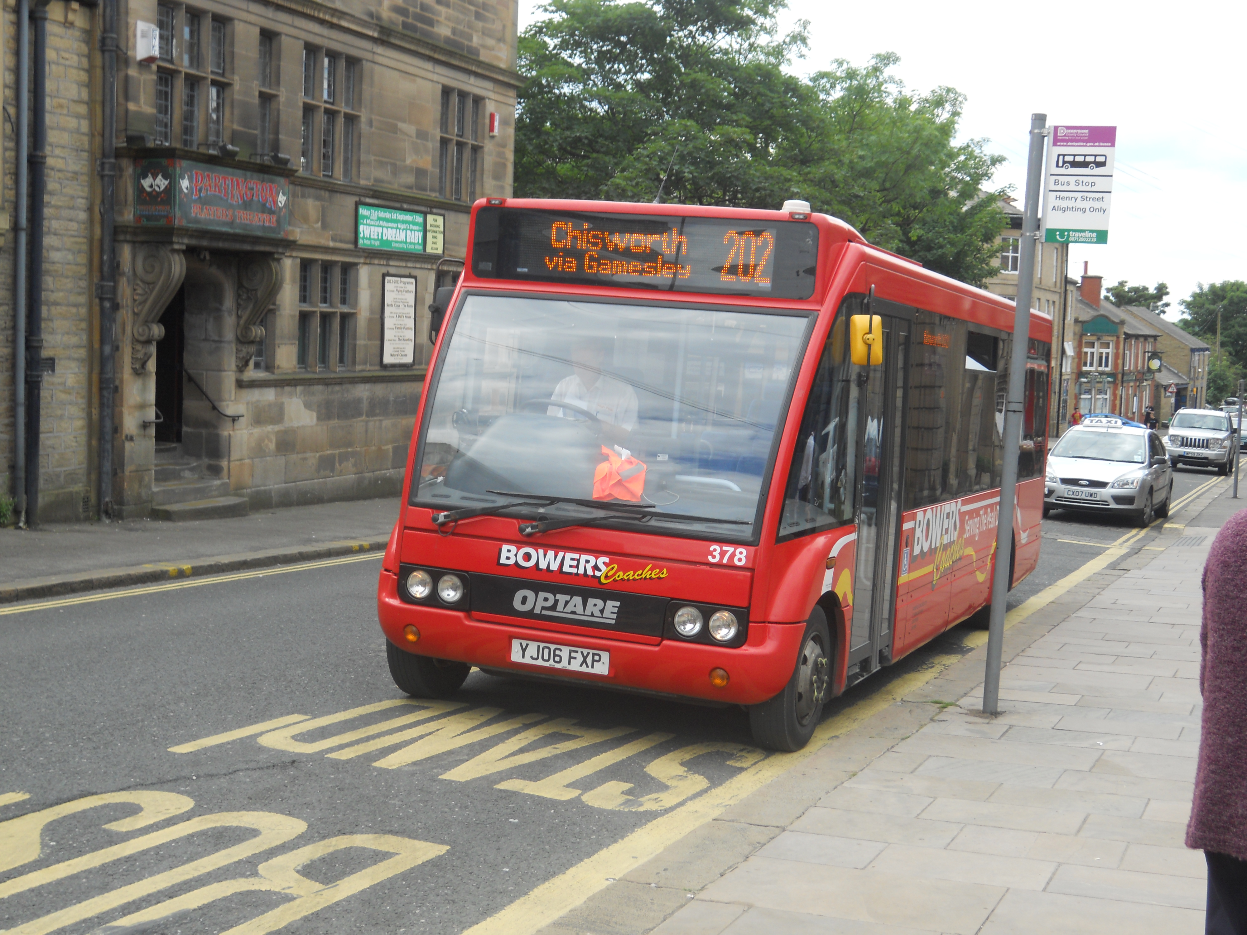 Optare Solo. New in August 2006 to Bowers Coaches Seen on Henry Street in Glossop on Friday 10th August with a service towards Chisworth, a small village 3 miles south-west of here Bowers (formerly Bowers Coaches but still has the latter!) is the main bus operator for Derbyshire, and also does serves in surrounding areas outside Derbyshire such as Macclesfield, Marple and even as far as Knutsford which operates the circular 300 route in the town